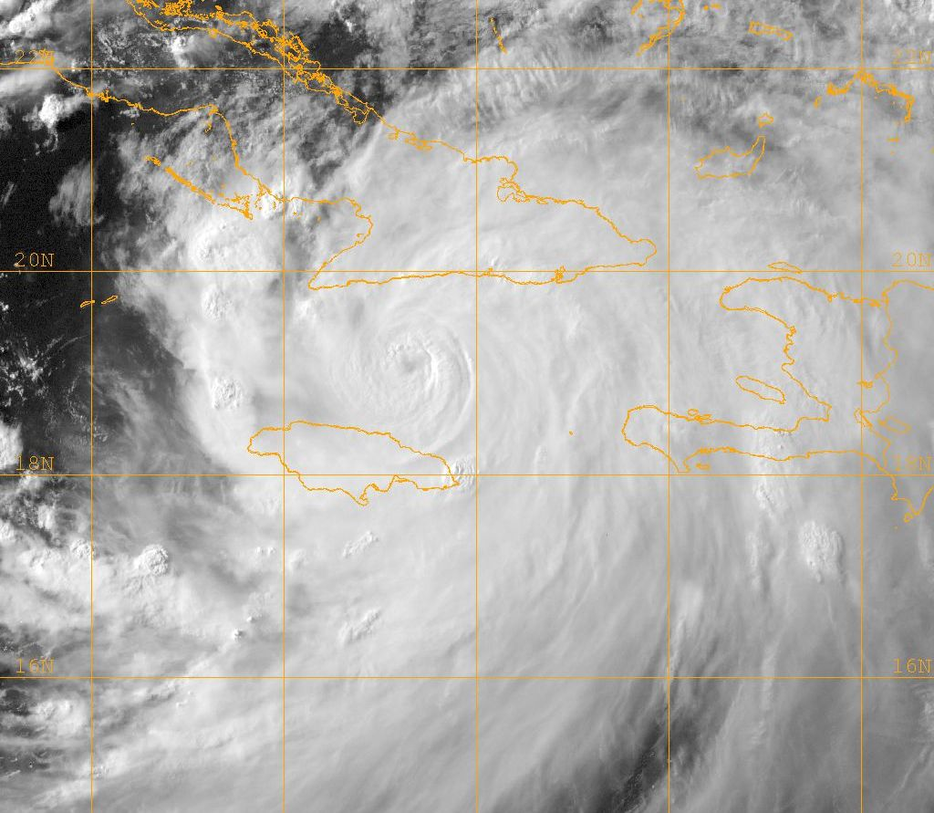 Visible satellite image of Hurricane Dennis intensifying north of Jamaica on July 7, 2005.